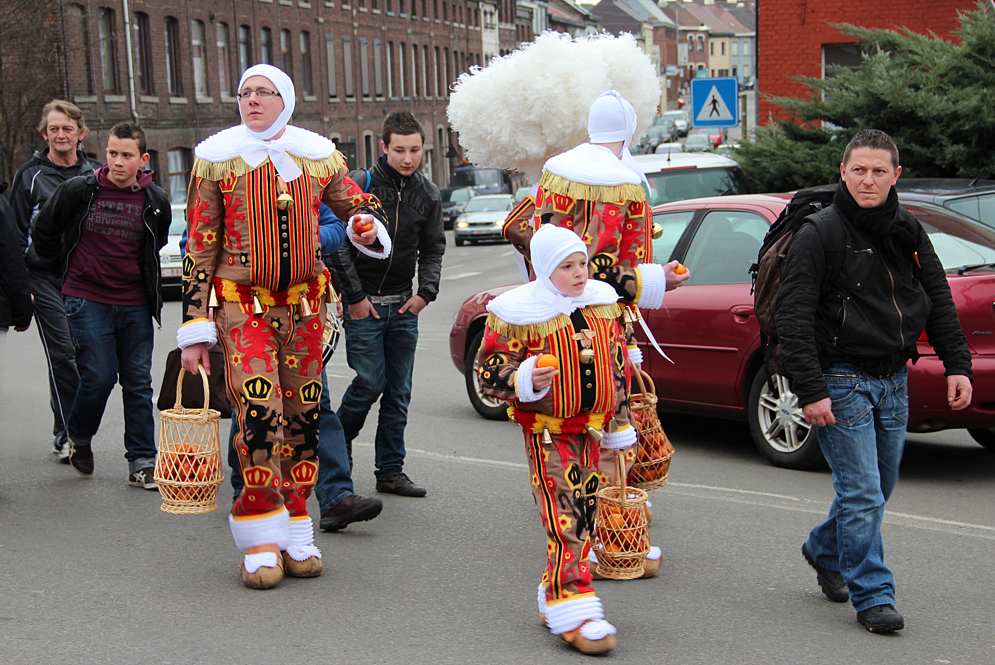 Binche, departure of the Gilles to the Grand'Place on Shrove Tuesday afternoon.